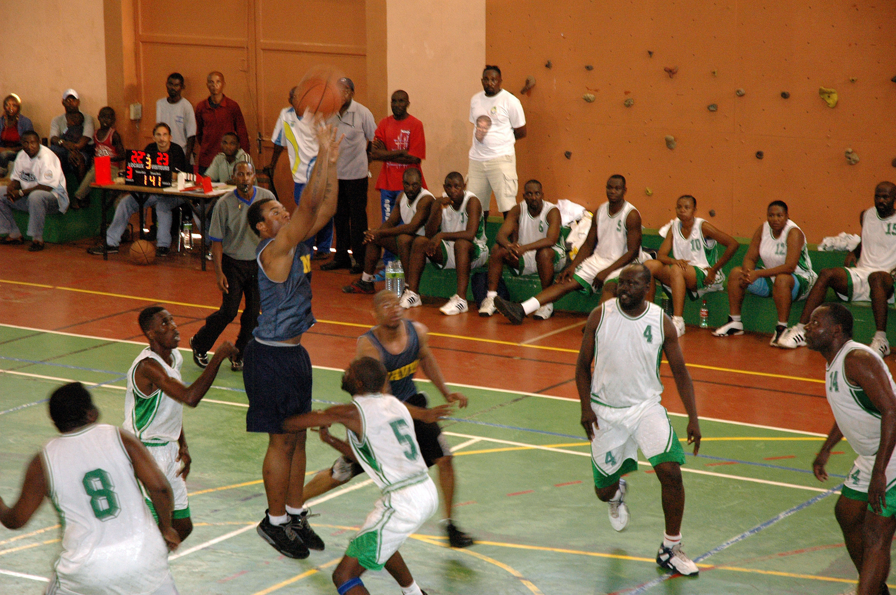 Port Gentil, Gabon (Feb. 10, 2007) - Operation Specialist Seaman Travon Cuffee a member of the guided-missile frigate USS Kaufman (FFG 59) basketball team, puts up a shot against a local Gabonese team. Cuffee sank a fifty-foot goal at the buzzer for an apparent game winning 3-pointer, but it was determined the basket came after time had expired handing the home team the victory. The friendship-building event was part of Kauffman's port visit. A task group comprised of USS Kauffman, U.S. Coast Guard Cutter USCG Legare (WMEC 912), and elements of the U.S. Naval Forces Europe-Africa staff, is currently deployed to the Gulf of Guinea to strengthen Regional Maritime Partnerships. U.S. Navy photo by Mass Communication Specialist 2nd Class Anthony Dallas (RELEASED)